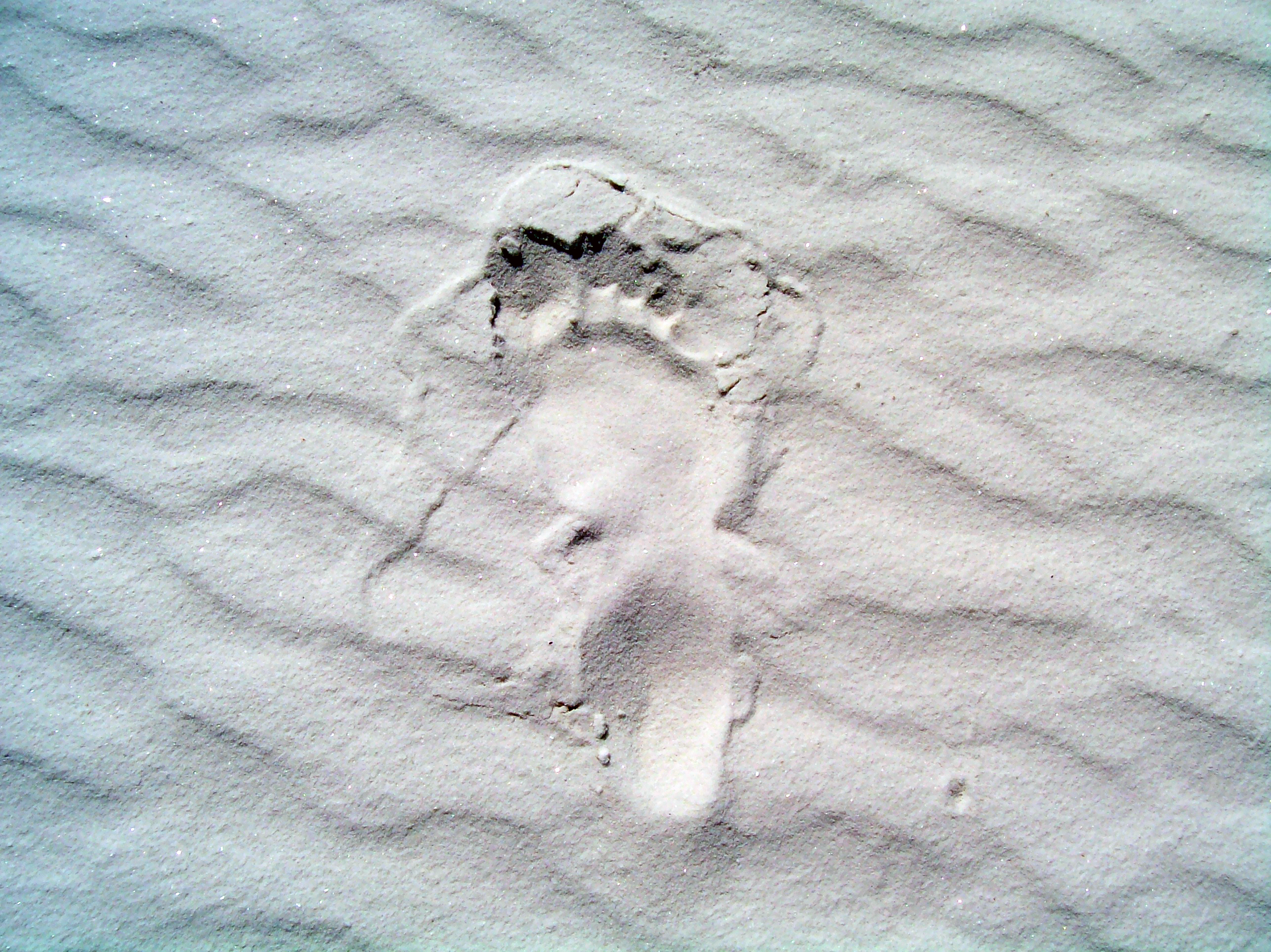 white sands footprint